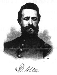 Portrait Drawing of Dr. David Alter of Freeport, PA.